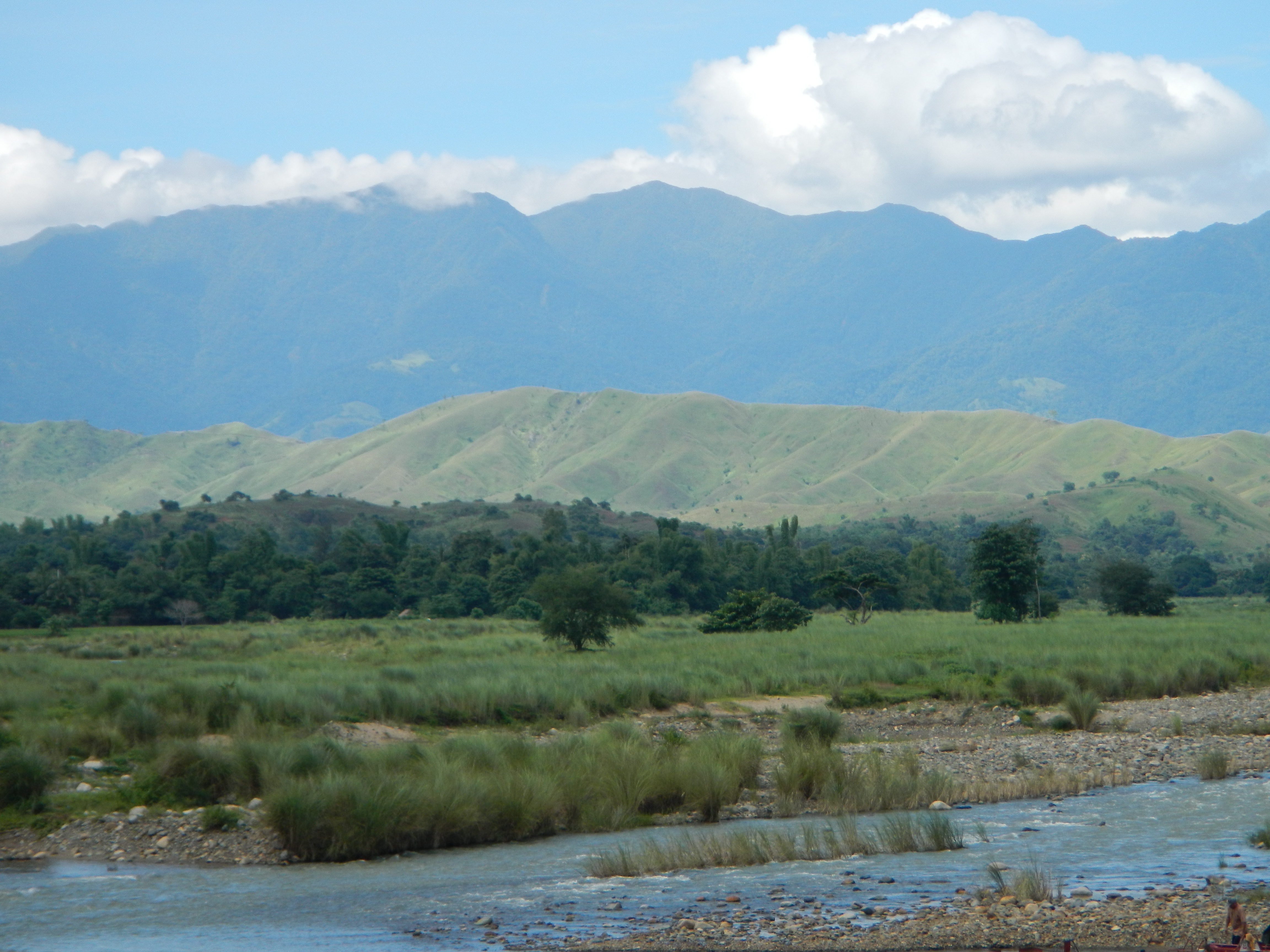 UploadWizard of Poetic, transcendental - beyond compare - "scenic, panoramic, mystic, and ultimate" Carranglan: (Baluarte) Bridges, Hillsides, [1] 15° 57' 56.53" N 121° 3' 7.62" E [2] Mount Carranglan, Carranglan River[3] Summit elevation approx. 610 meters Southwest of Carranglan, Nueva Ecija, Coordinates: 15°55'16"N 121°1'28"E [4] [5][6] [7] Carranglan River, [8] [9] [10] --- Carranglan, Nueva Ecija[11] is a second class municipality in the province of Nueva Ecija[12], Philippines - 2010 census, a population of 37,124 people - the province's largest municipality in terms of land area.[13]2013 Elections [14] [15] Land Area: 705.31 km² ZIP Code: 3123 [Coordinates: 15°59'42"N 121°1'40"ECarranglan road Latitude: 15°57'3.24"- Longitude: 120°59'58.2"[16]Mayor Restituto Abad dies 5 days after gun attack in Nueva Ecija Thursday, February 9th, 2012 The gunman, Jonathan Carpio, and the other suspects.